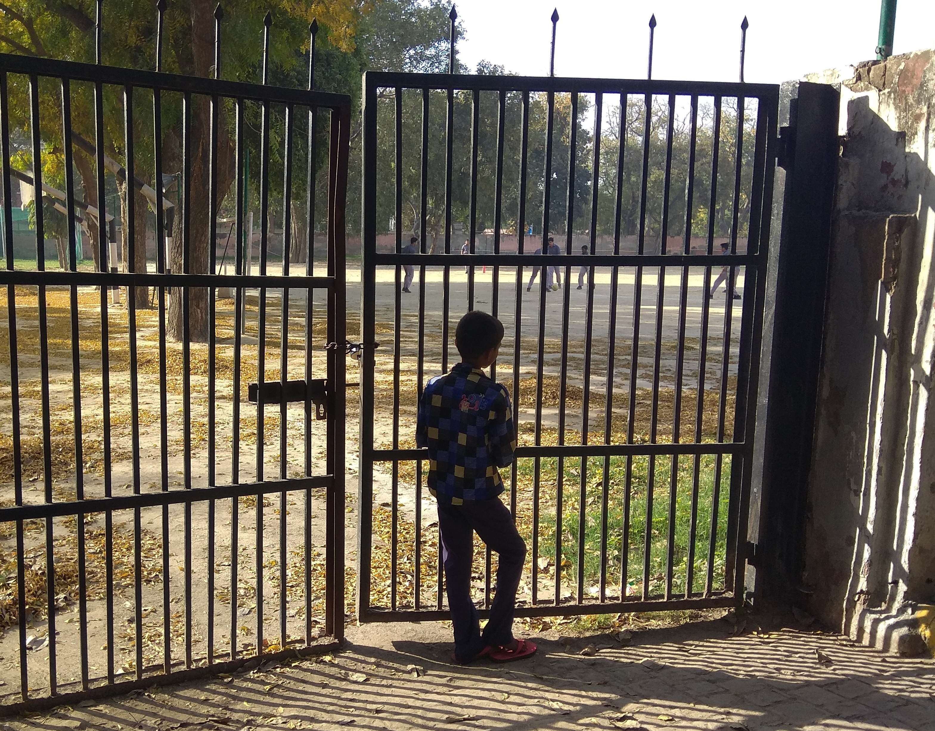 There is a child who belongs to the Marginalised low class section of the society in Delhi. Who is looking at those children who are playing football in the school field.